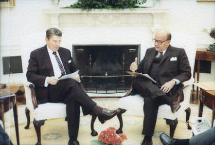 Ronald Reagan visits with J. Peter Grace by fireplace in Oval Office in 1984.